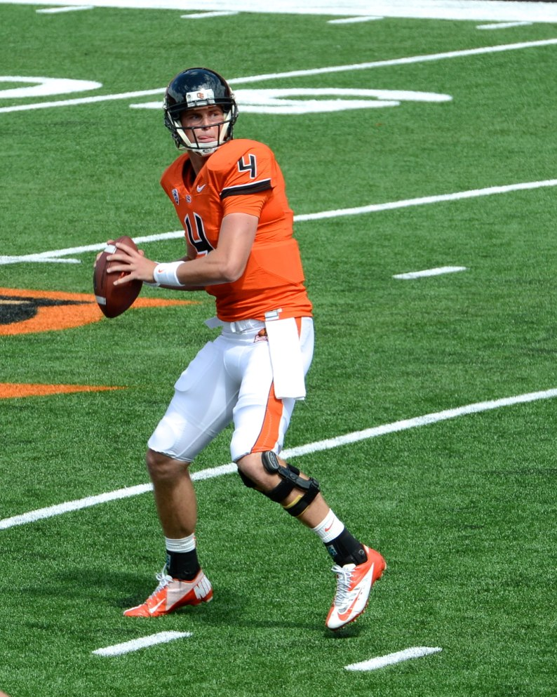 Sean Mannion drops back for a pass sometime in the first half of the game against the Wisconsin Badgers at Reser Stadium - Corvallis, Oregon.